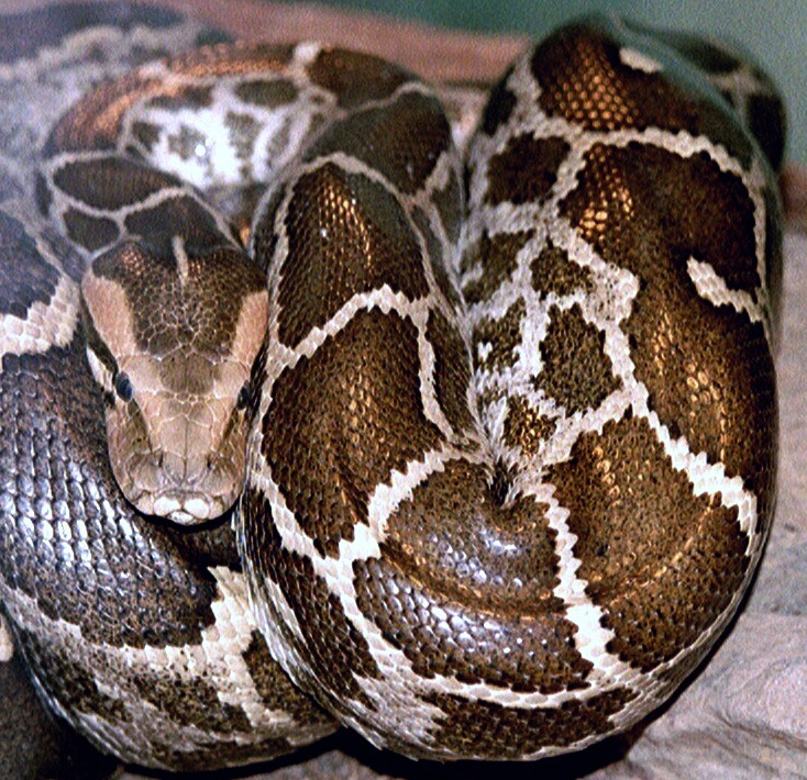 Light Phase Asian Rock Python (Python molurus molurus) at San Diego Zoo, USA